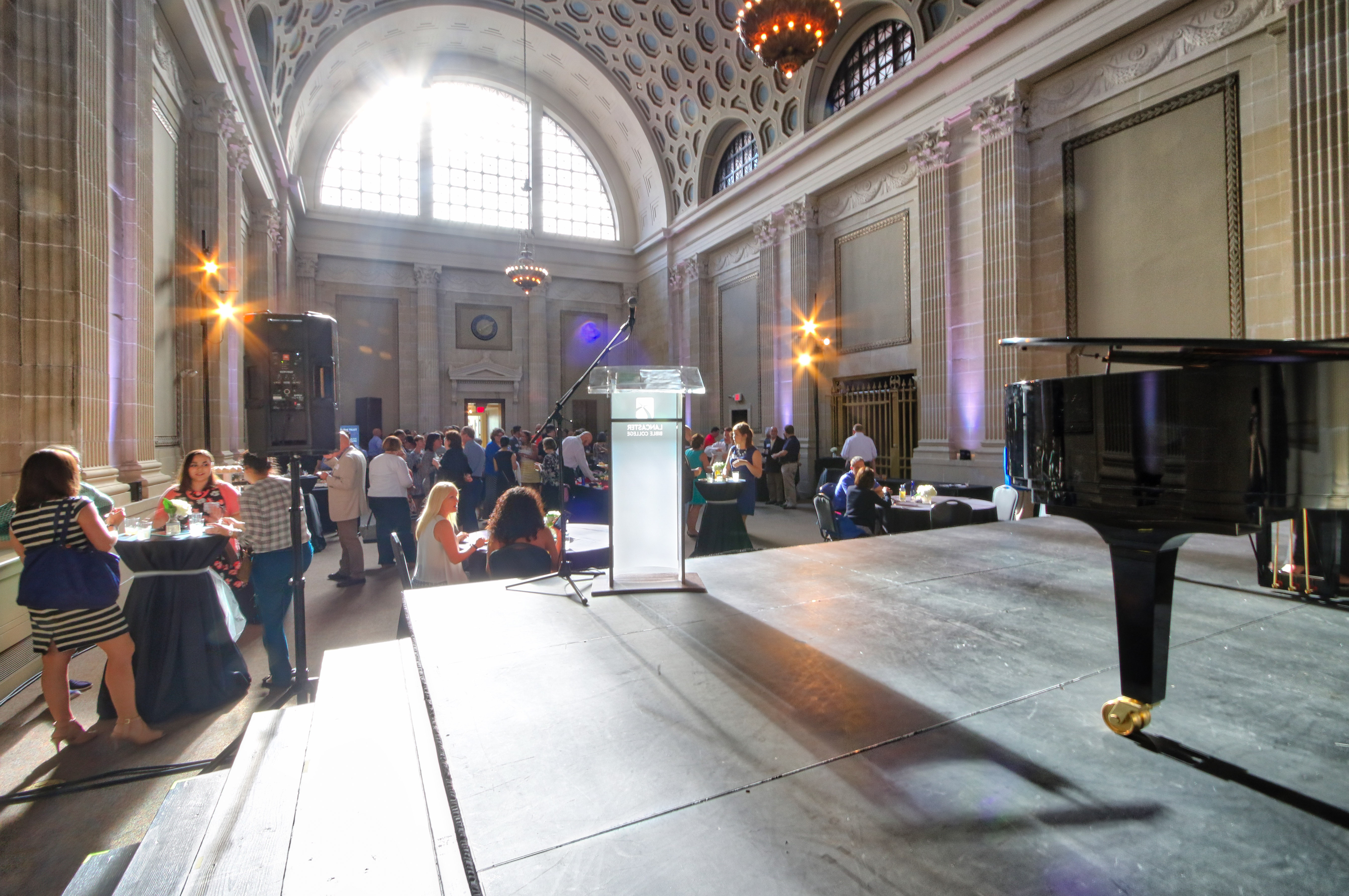 A musical performance being held at The Trust Performing Arts Center. From the stage facing West.